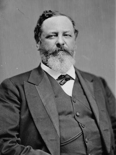 George H. Pendleton of Ohio.